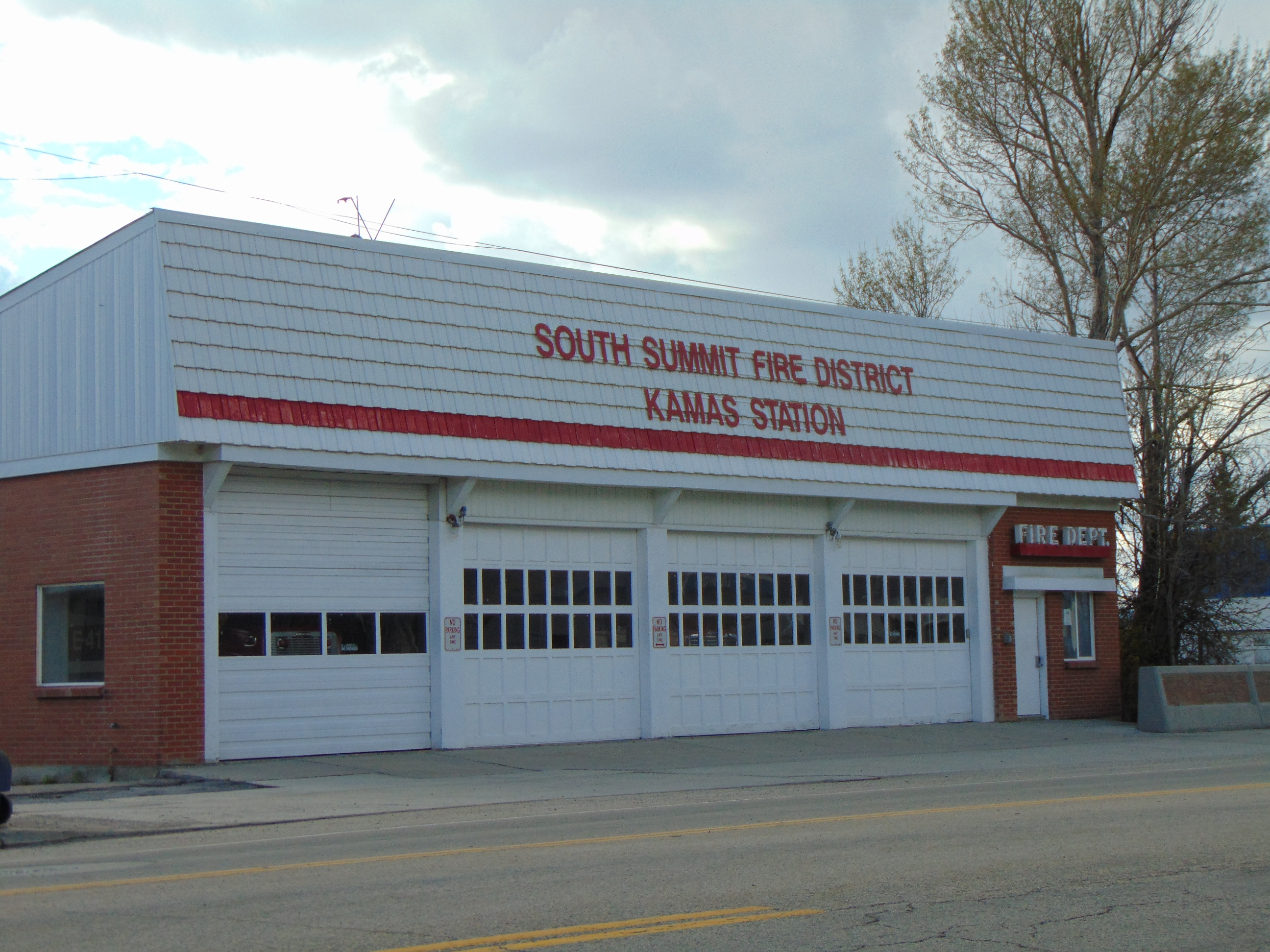 Looking northwest across Main Street (Utah State Route 32) at the South Summit Fire District Kamas Station in Kamas, Utah, April 2016